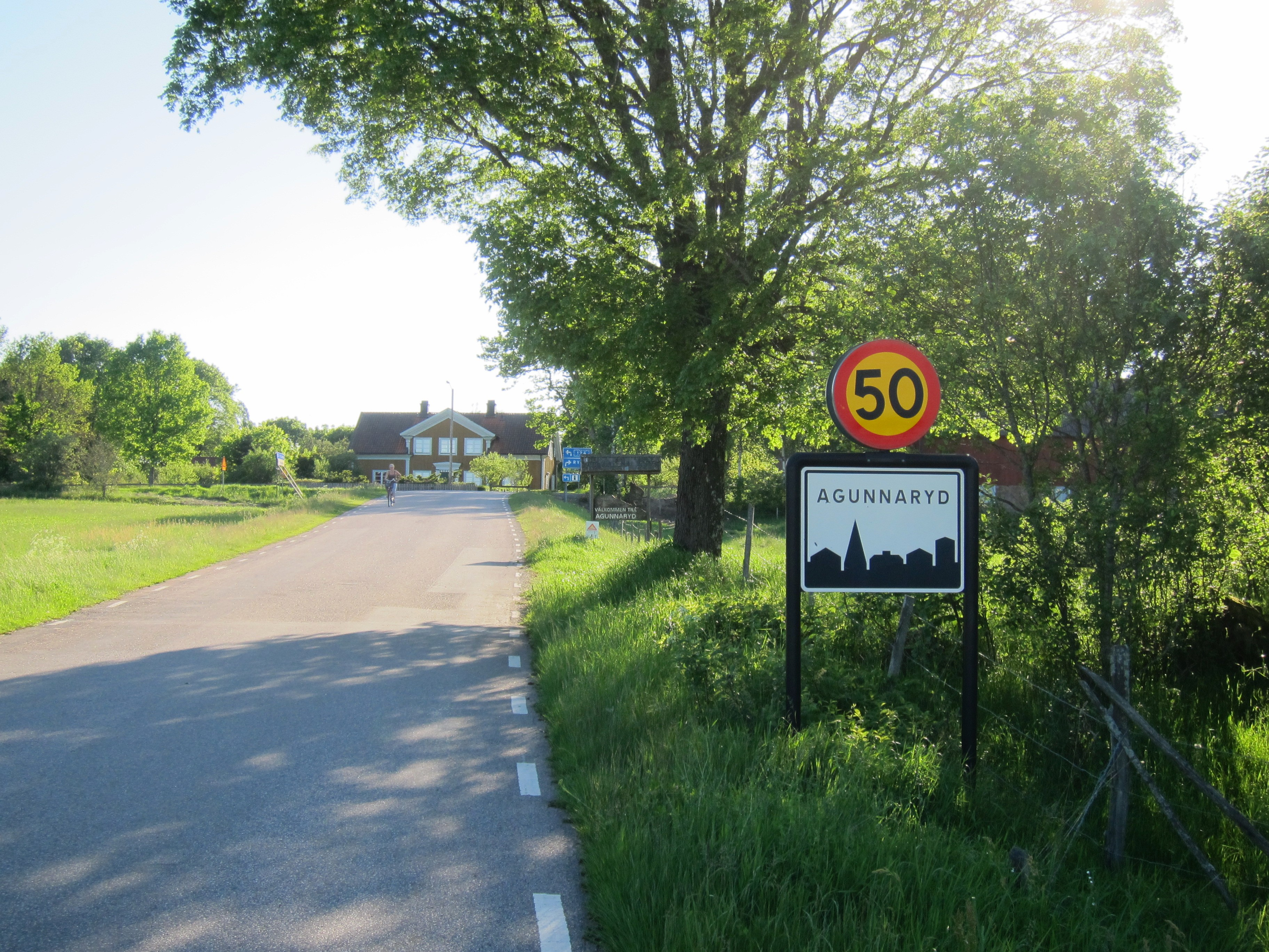 Agunnaryd sign.